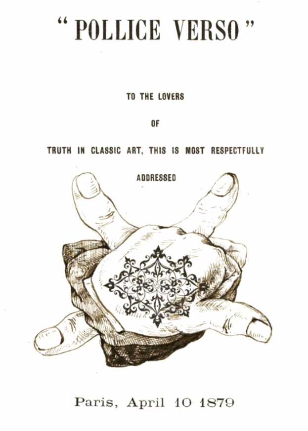 Title page with illustration from the 26-page pamphlet "Pollice Verso": To the Lovers of Truth in Classic Art, This is Most Respectfully Addressed published in Paris in 1879, reprinting evidence for and against the accuracy of the use of the thumbs-down gesture by spectators in the ancient Roman Colosseum in the painting Pollice Verso (1872) by Jean-Léon Gérôme, including a letter dated 8 December, 1878 from Gérôme himself.